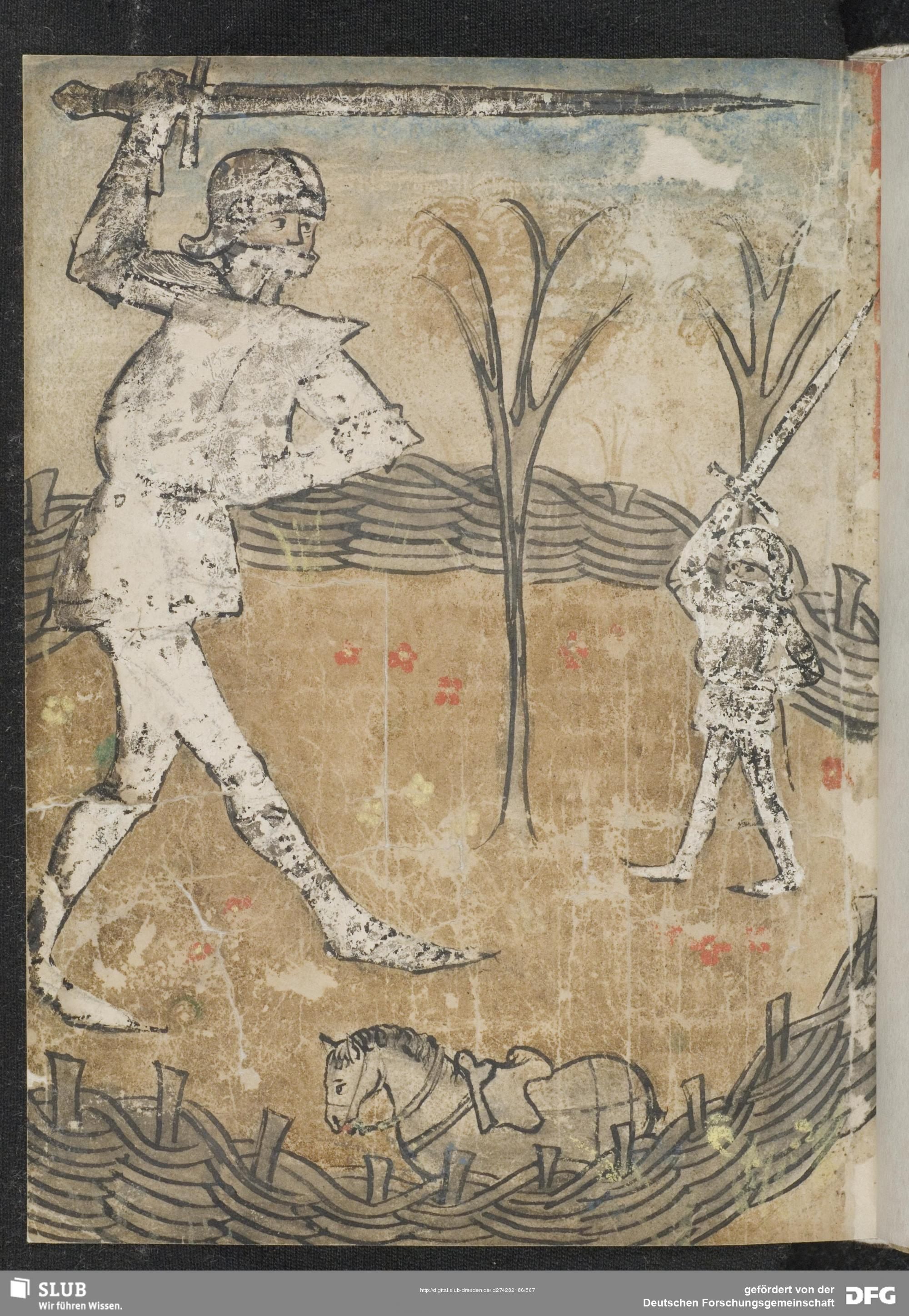 Laurin kaempft gegen Dietrich im Rosengarten. SLUB Dresden M. Dresd. M. 201 fol. 276 v.